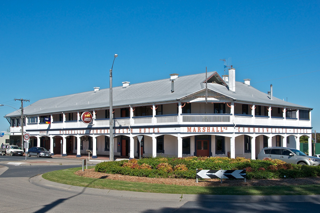 I love these old pubs with character. You will probably see quite a few pics like this one. Orbost, Victoria